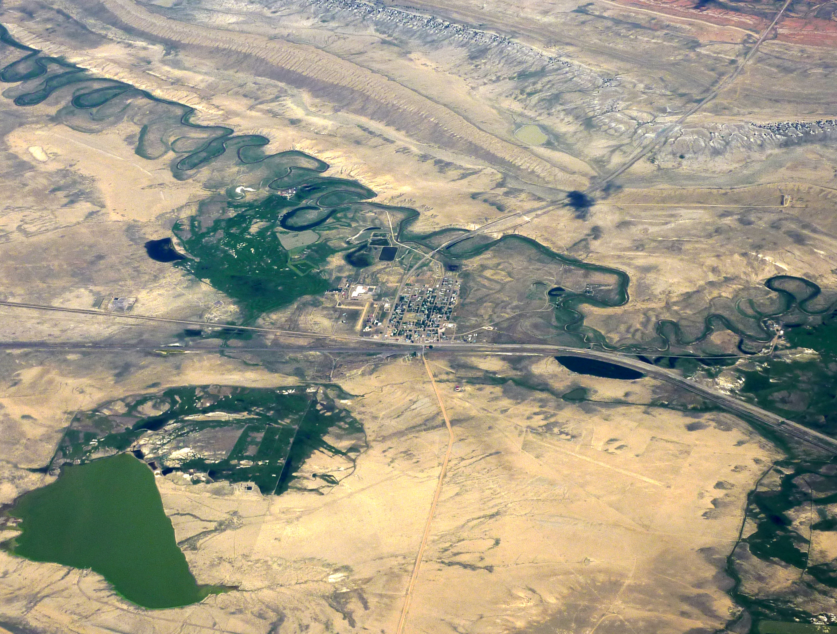 Aerial photo of Medicine Bow, Wyoming, USA.